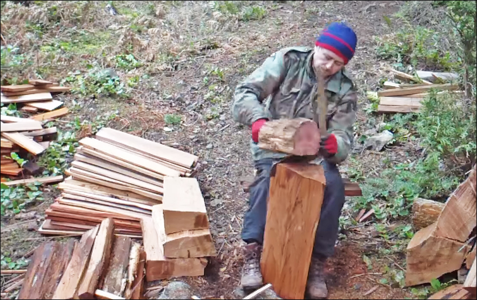 Red cedar shingle splitter